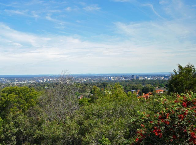 Looking SW from Mobbs Hill across remnant and regenerating Blue Gum High Forest of the Galaringi Reserve, over western Sydney and on to the Great Dividing Range. The view from Mobbs Hill has been a noted feature of the district for generations. Other information Cropped image with electricity power lines removed